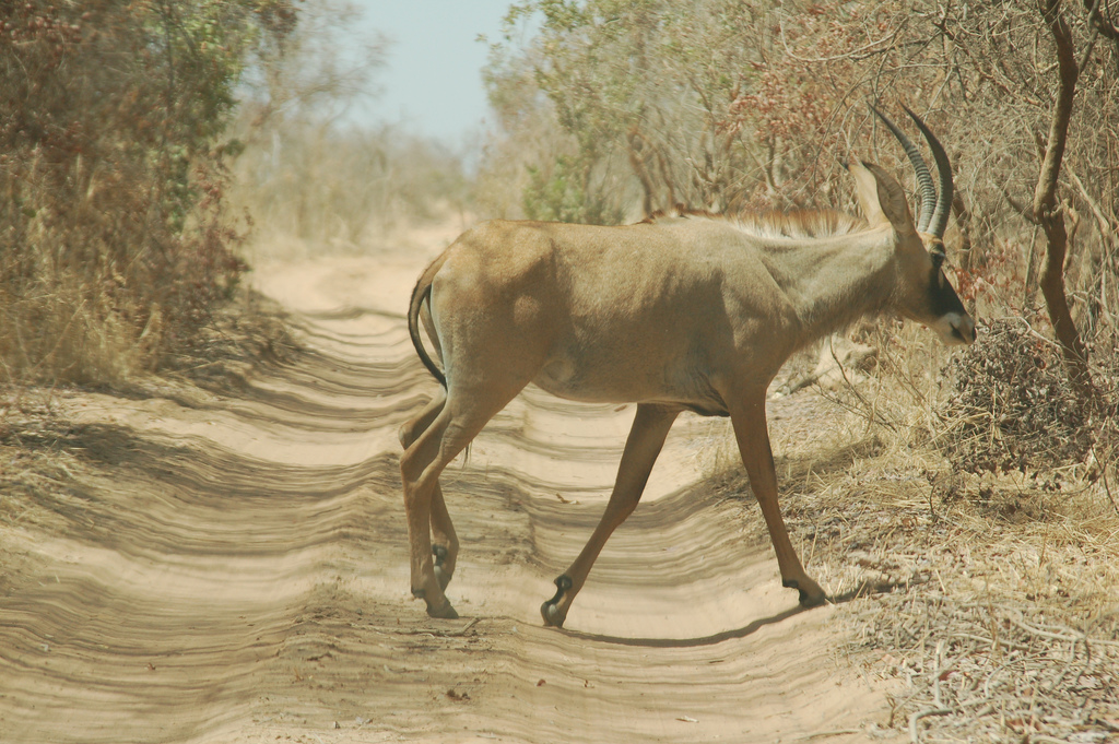 Roan Antelope photographed in the Niger section of the Parc W du Niger complex of protected areas.